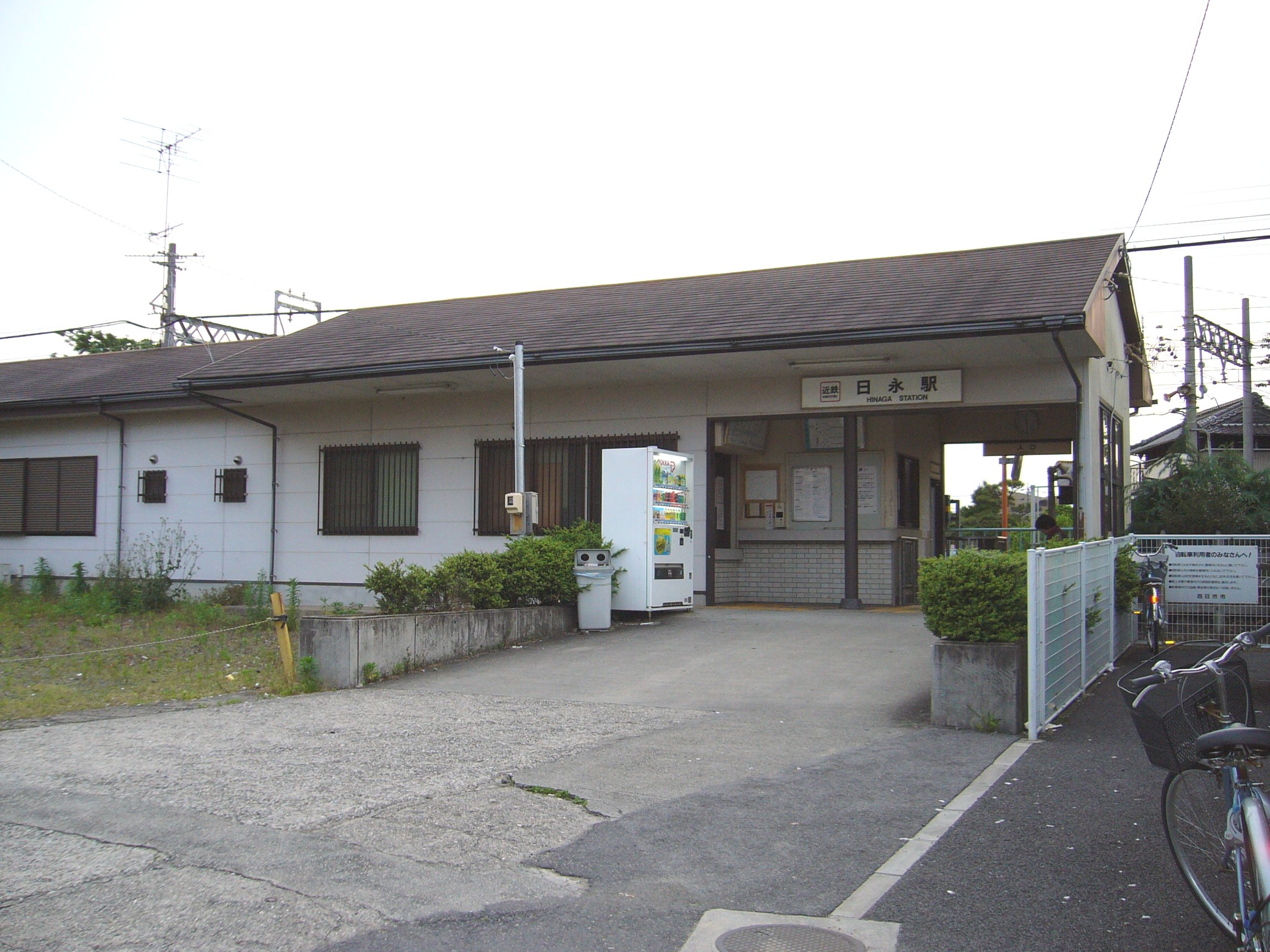 Kintetsu Hinaga Station